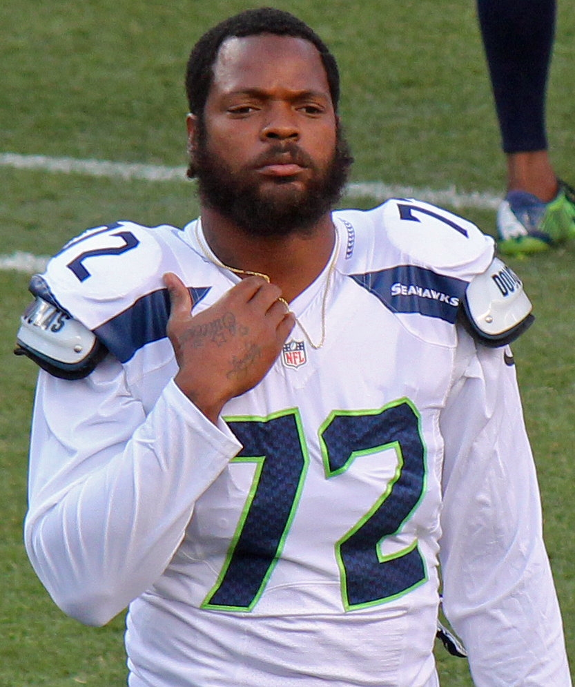 Michael Bennett, a player on the National Football League.